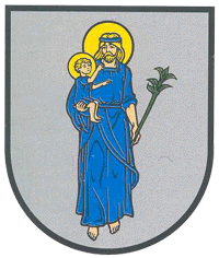 Coat of Arms of Bolekhiv (Bolechow) from XVII century. At that time the city was in Poland, currently in Ivano-Frankivsk Oblast in Ukraine.